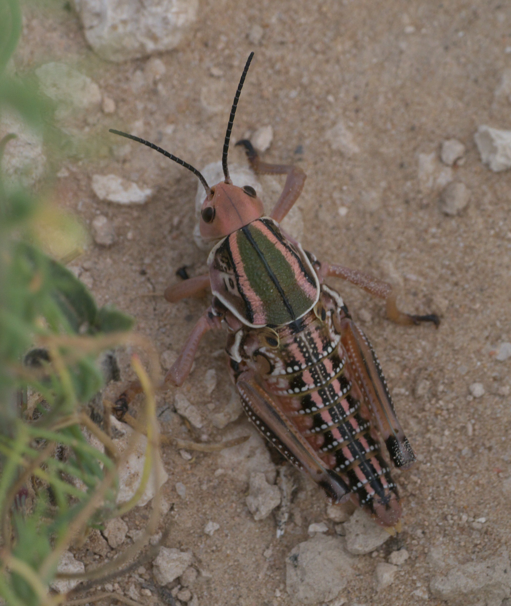 Brachystola magna, plains lubber grasshopper, ID Confidence: 98